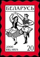 Stamp of Belarus